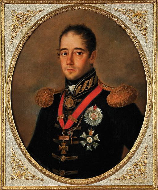 Luís do Rêgo Barreto (1777-1840), 1st Viscount of Geraz do Lima